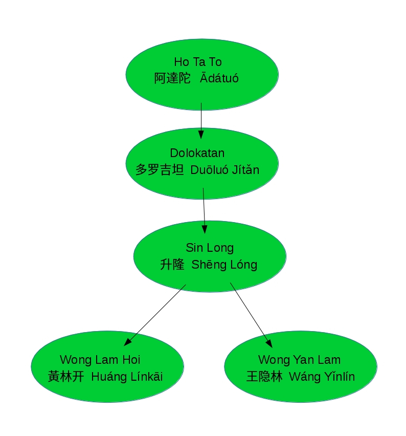 lamapai and back hok pai origin